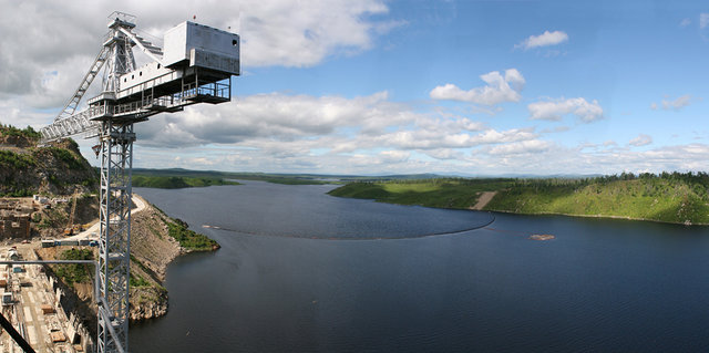 Bureya HPP